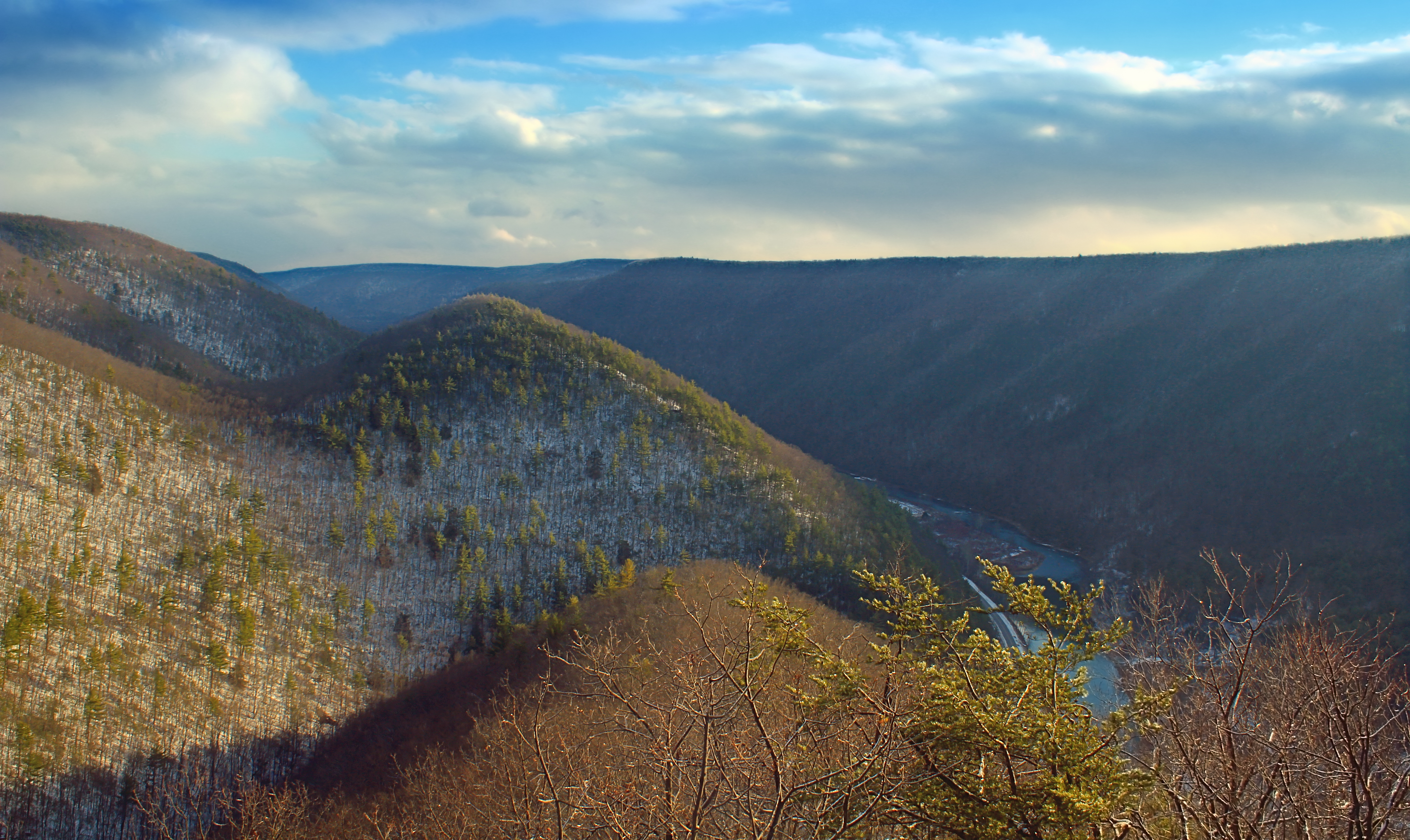 Raven's Horn Vista, Tiadaghton State Forest, Lycoming County, along the Golden Eagle Trail. Pine Creek, visible at the far right, is actually more of a river than a creek. It cuts through the Allegheny Plateau in a deep, steep-walled gorge in its journey to the West Branch Susquehanna River. The gorge extends roughly from Ansonia, in Tioga County, to Jersey Shore, in Lycoming County.